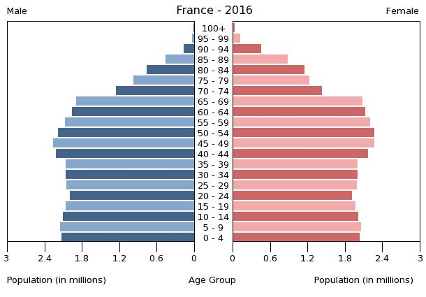 A population pyramid illustrates the age and sex structure of population and may provide insights about political and social stability, as well as economic development. The population is distributed along the horizontal axis, with males shown on the left and females on the right. The male and female populations are broken down into 5-year age groups represented as horizontal bars along the vertical axis, with the youngest age groups at the bottom and the oldest at the top. The shape of the population pyramid gradually evolves over time based on fertility, mortality, and international migration trends.